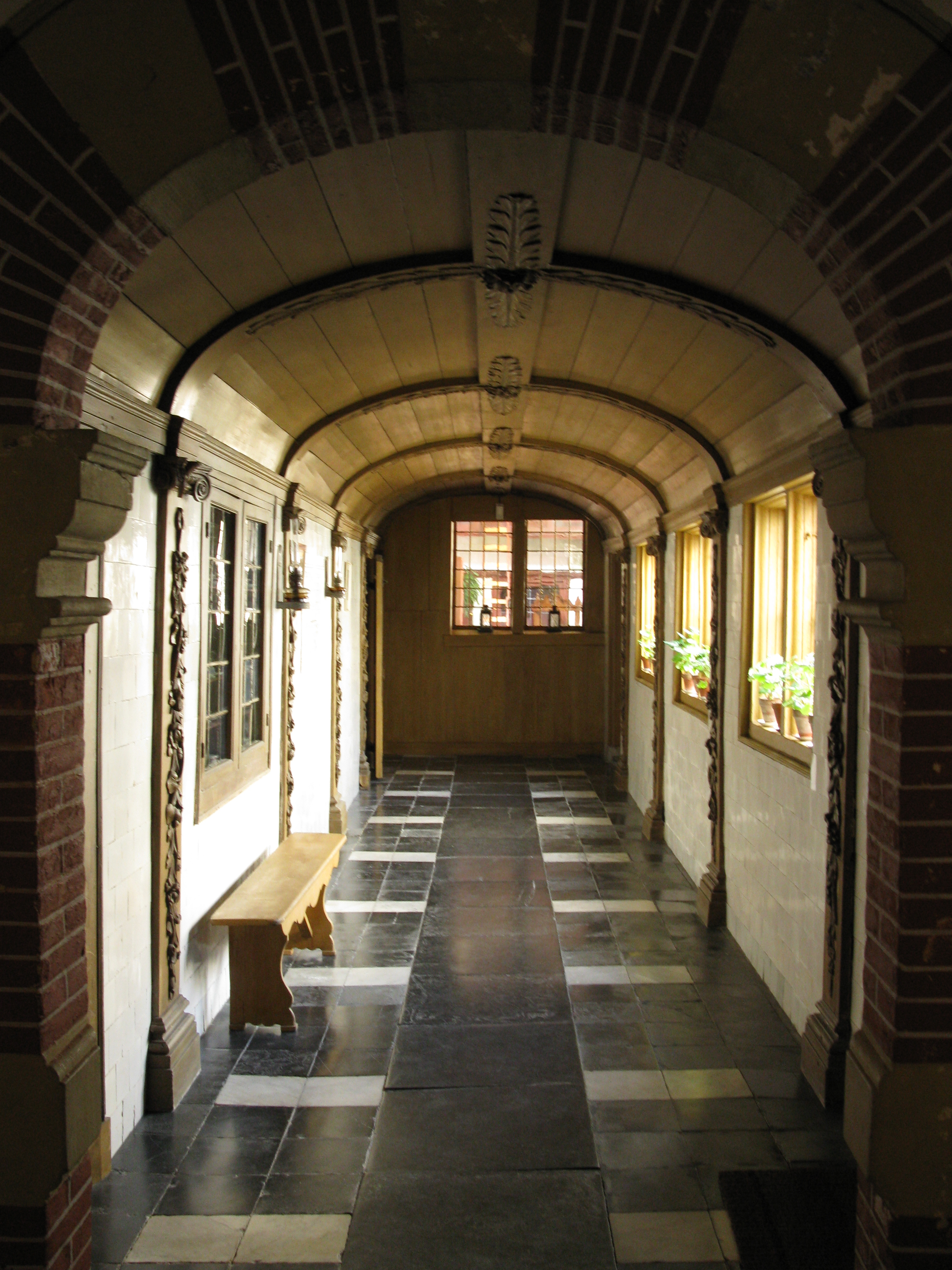 Indoor hallway that connects the two houses.